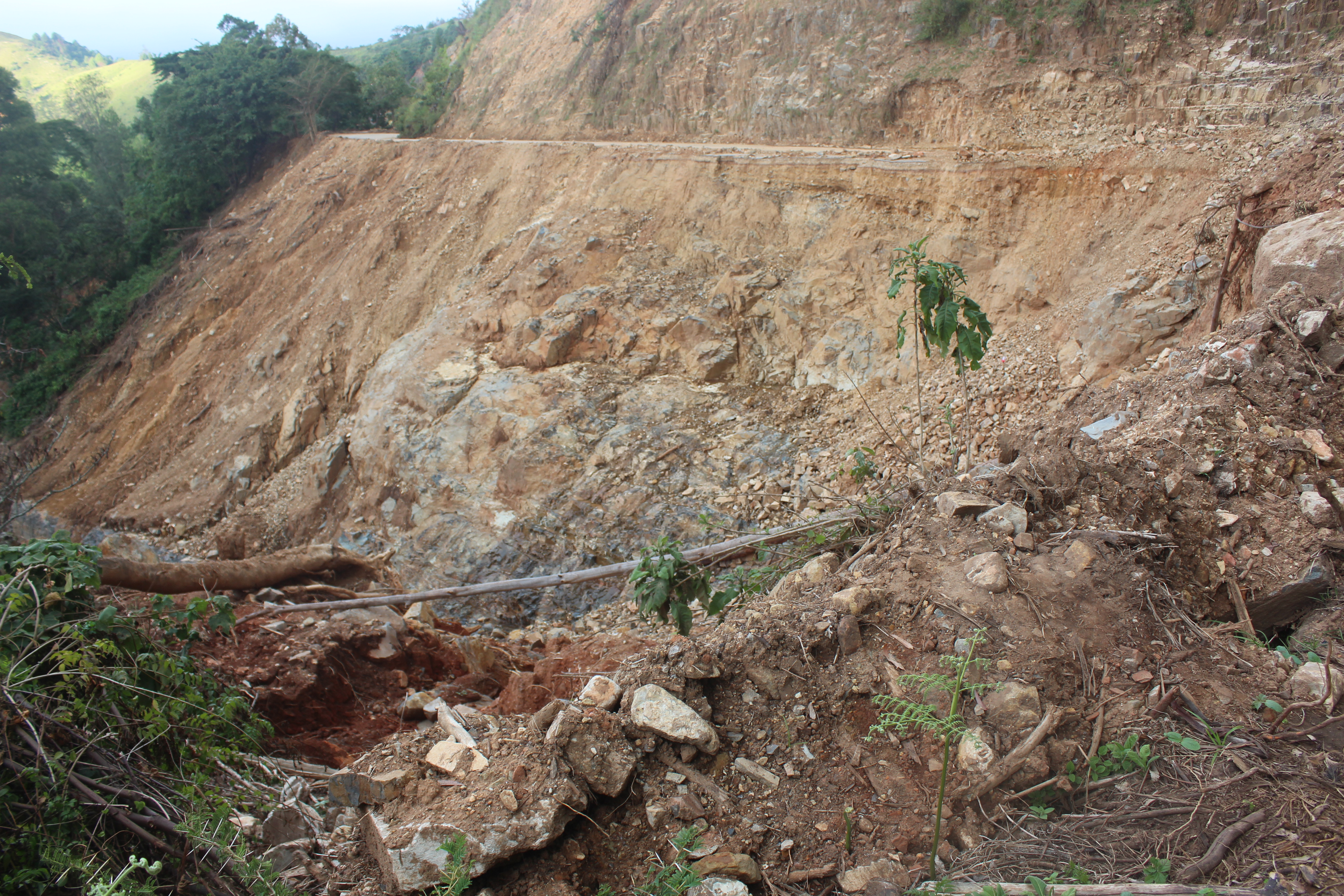 The destroyed road used by well wishers to carry help to Cyclone Idai victims in Chimanimani This is an image with the theme "Africa on the Move or Transport" from: Zimbabwe